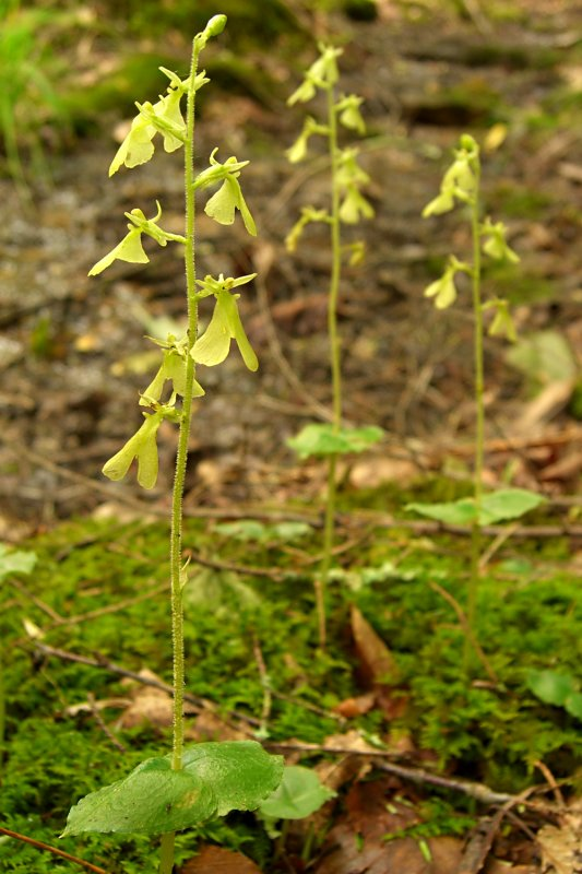 Scientific Name: Neottia smallii (Wiegand) Szlach. (1995) - syn.Listera smallii Wiegand (1899) Common Name: Kidney Leaf Twayblade Certainty: positive (notes) Location: Southern Appalachians; Smokies; CabinCove Date: 20060605